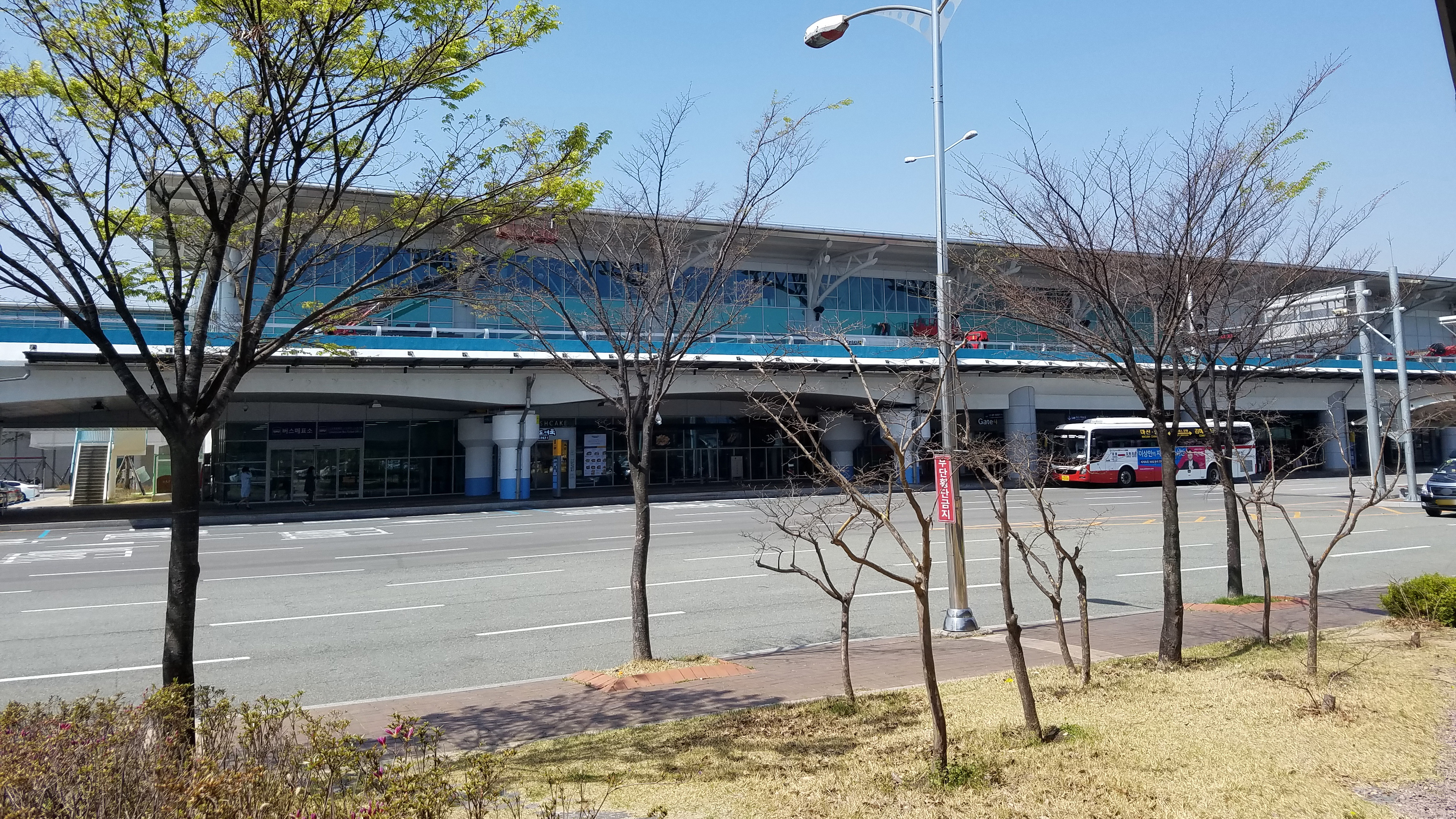 The international terminal of Gimhae International Airport